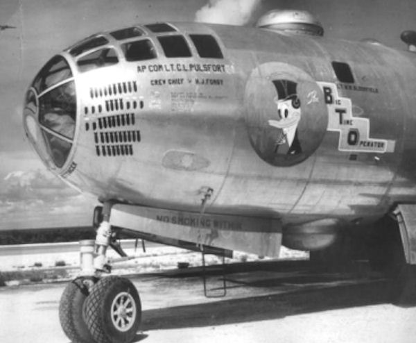 1st Bombardment Squadron Boeing B-29-50-BW Superfortress 42-24791 "Big Time Operator". After storage at NAS China Lake, CA, nose was acquired by USAFM and grafted onto museum building at Beale AFB, CA in 1986. Nose noted in 1996 in storage area of Museum of Flight, Seattle, WA.